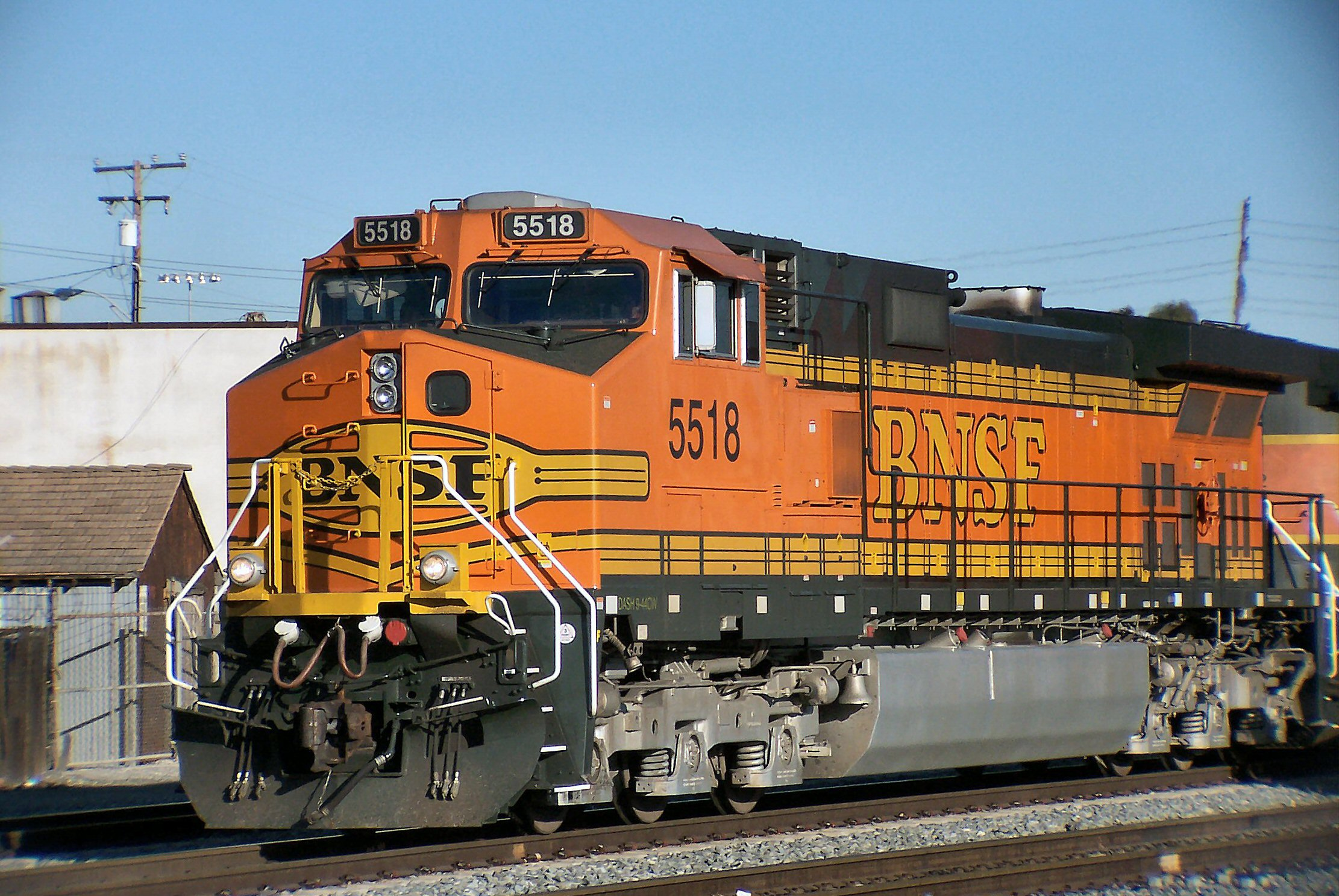 Burlington Northern Santa Fe Railway 5518, a GE C44-9W diesel locomotive of 4,400 hp (3,300 kW). Photo taken within Long Beach Harbor at Long Beach, California, USA on February 4, 2005.